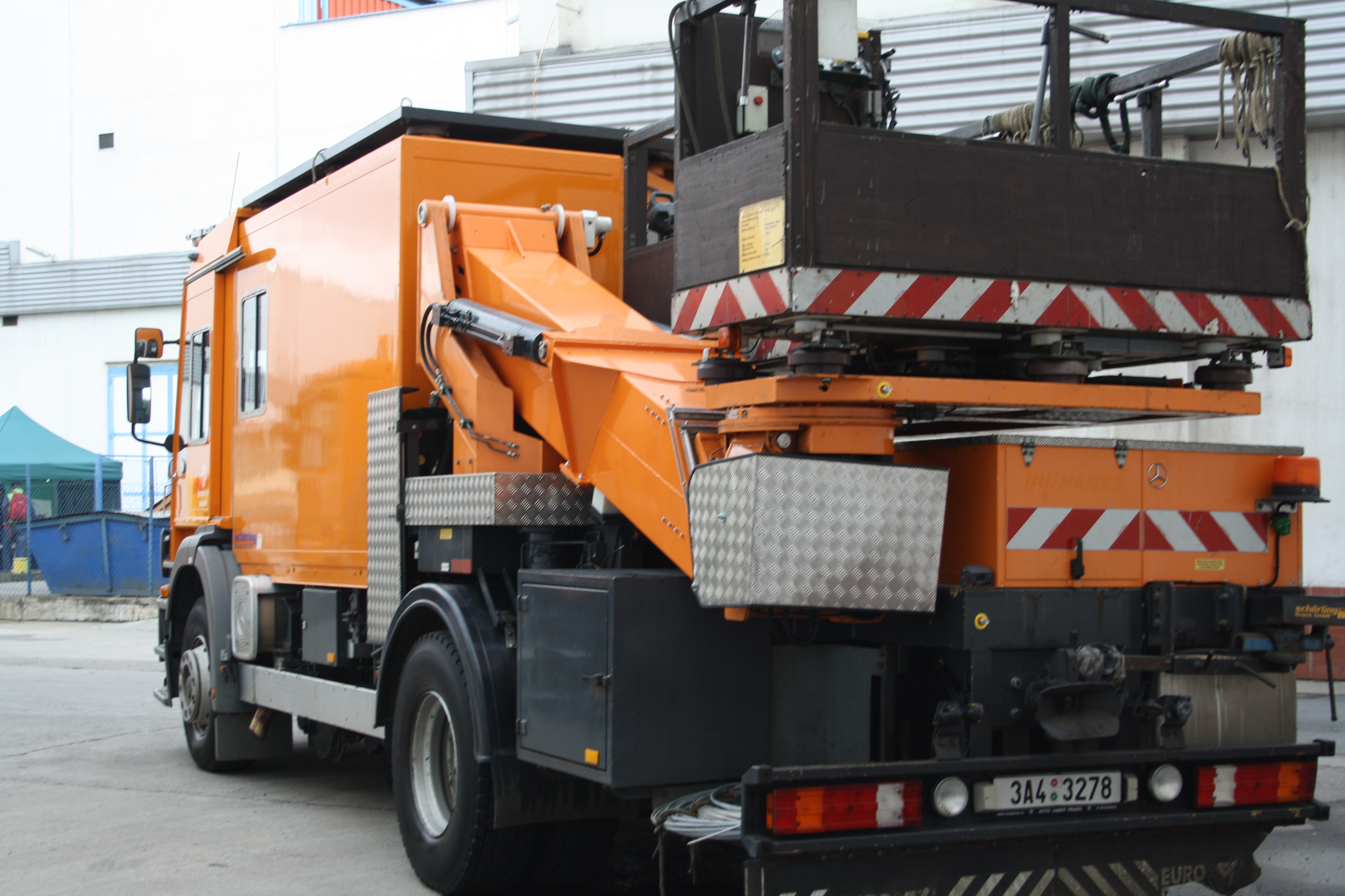 Tower truck